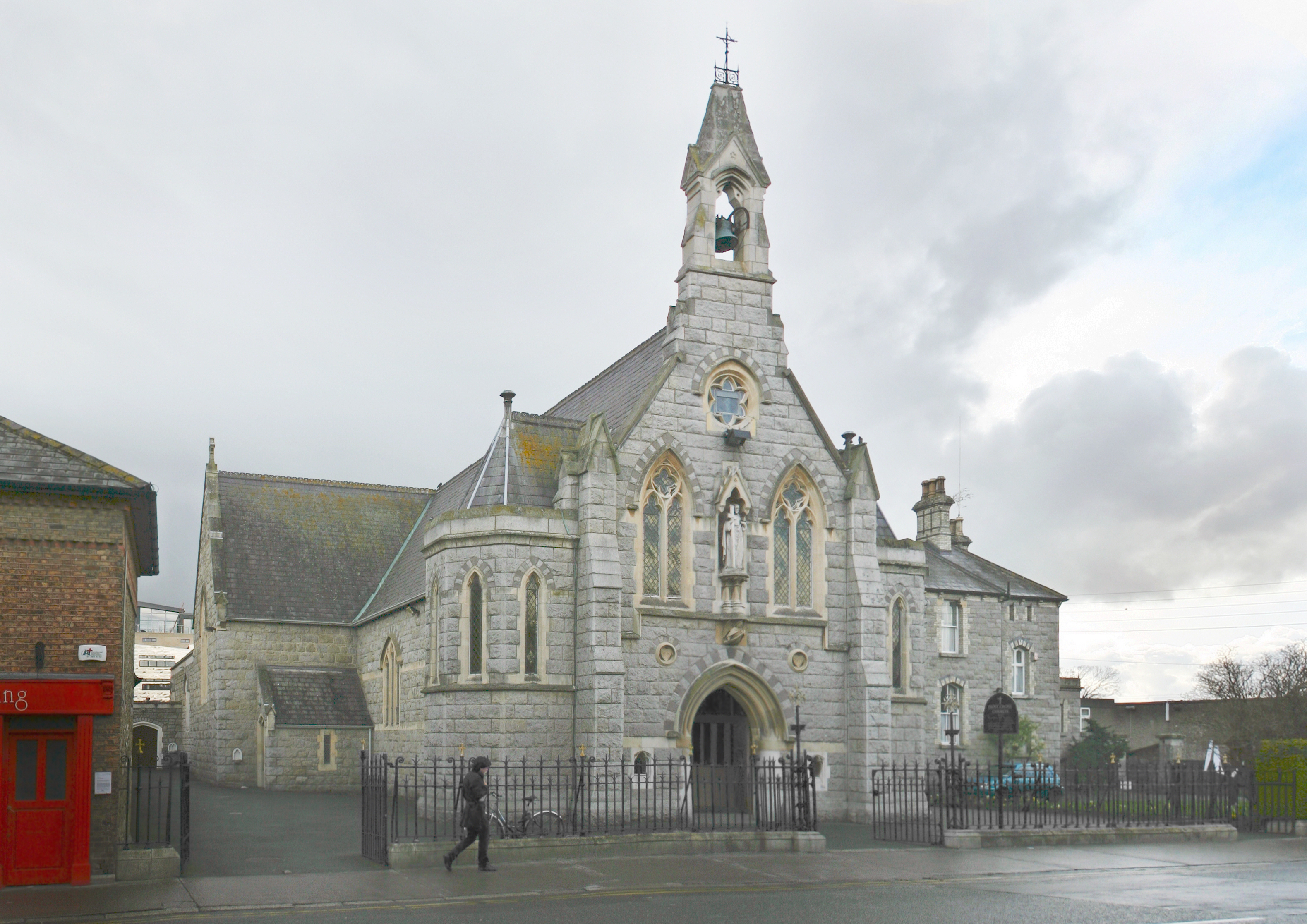 Holy Cross Church in Dundrum, Dublin, Ireland.